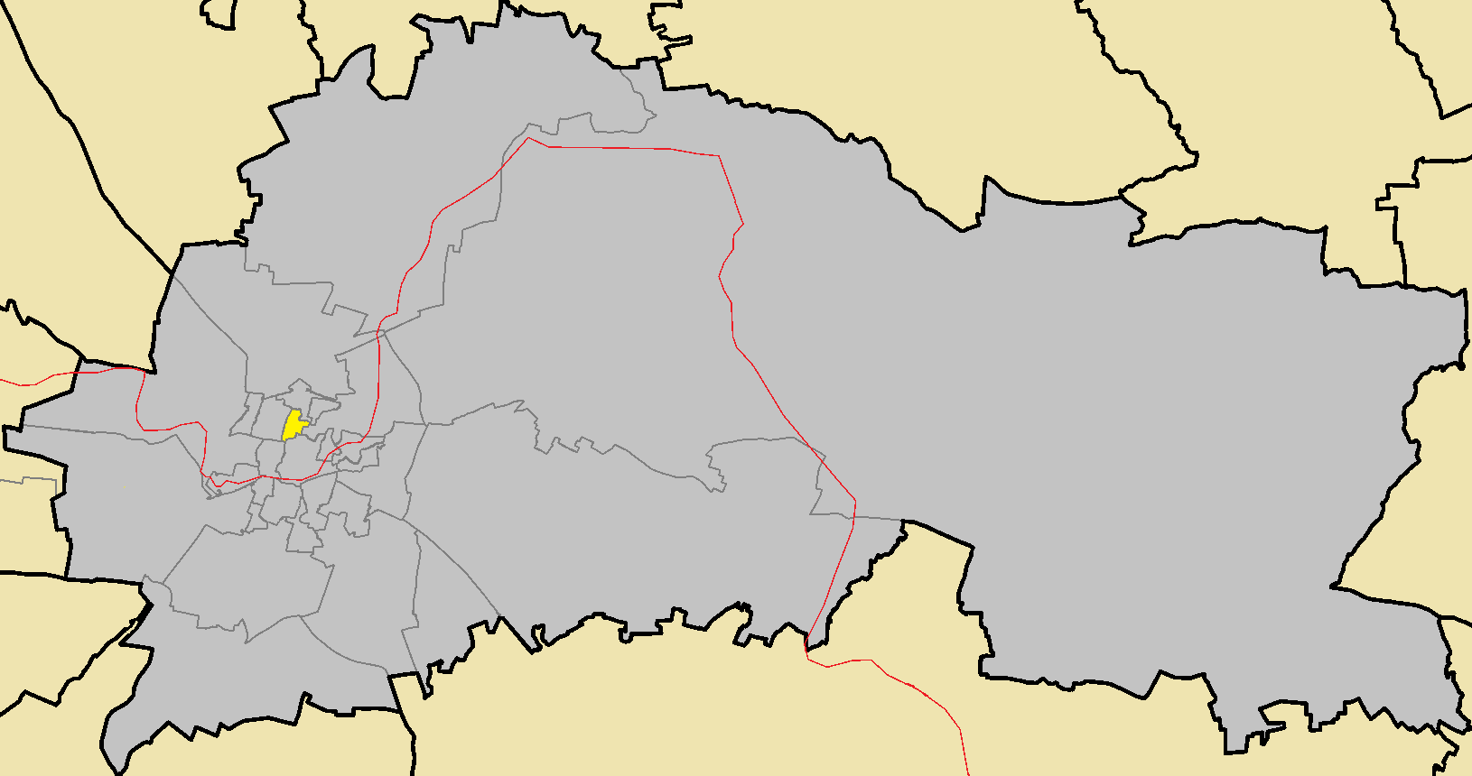 Ampnti Tsaous in Nicosia Municipality (de jure).